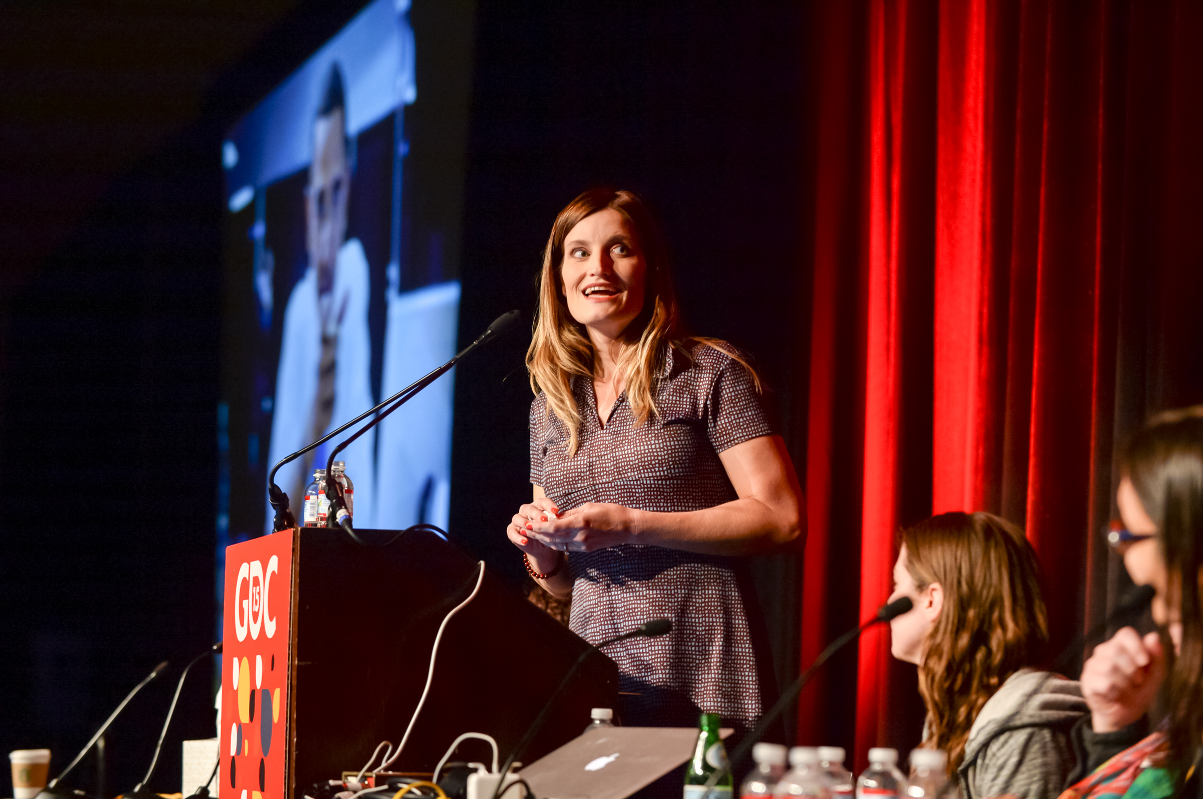 "#1ReasonToBe Brenda Romero | Program Director/Game Developer, UC Santa Cruz/Romero Games Leigh Alexander | Editor at Large, Gamasutra Constance Steinkuehler | Professor, Universty of Madison Wisconsin Elizabeth LaPensee | Game Designer, Odaminowin Studio Adriel Wallick | Programmer, MsMinotaur Sela Davis | Software Engineer, Microsoft Katherine Cross | Magnet Presidential Fellow, CUNY Graduate Center Amy Hennig | Sr. Creative Director, Electronic Arts / Visceral Games Location: Room 135, North Hall Date: Thursday, March 5 Time: 5:30pm - 6:30pm"